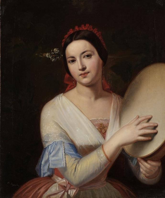 Italian dancer, circa 1851-1853